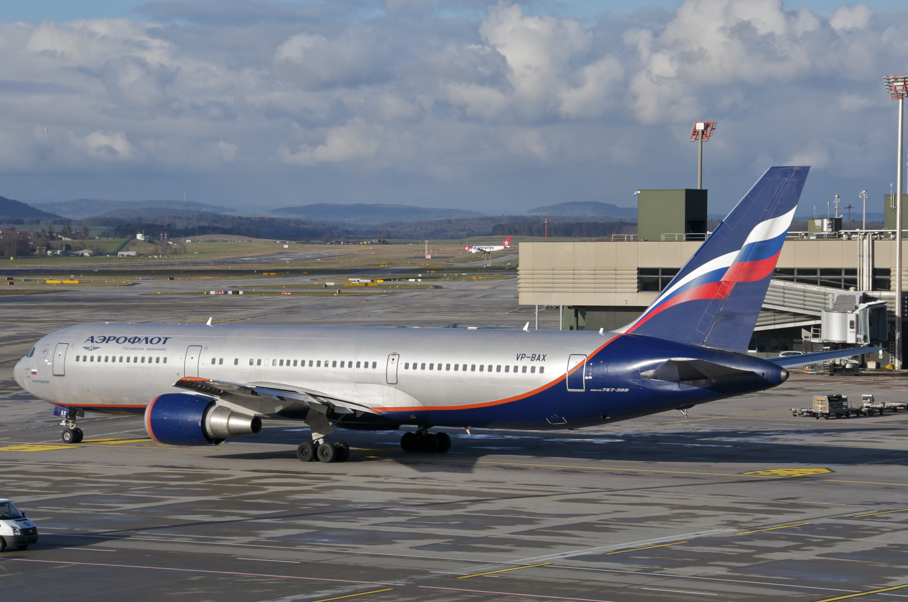 This Boeing 767-36NER took its first flight on September 22, 1999 and was delivered to SU on October 1, 1999...(c/n 30109/ 767)